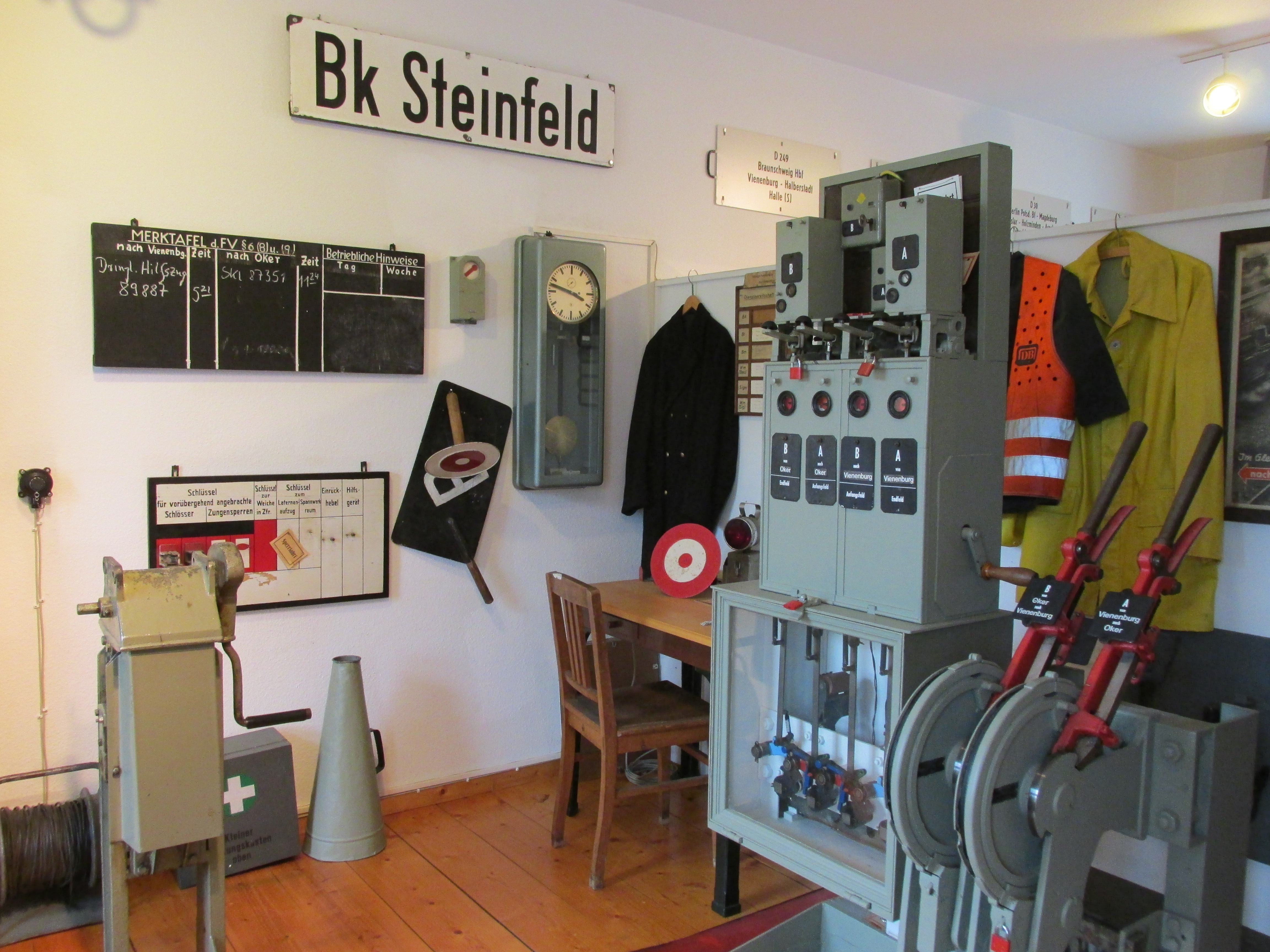 Vienenburg Railway museum, Goslar, Germany check usage